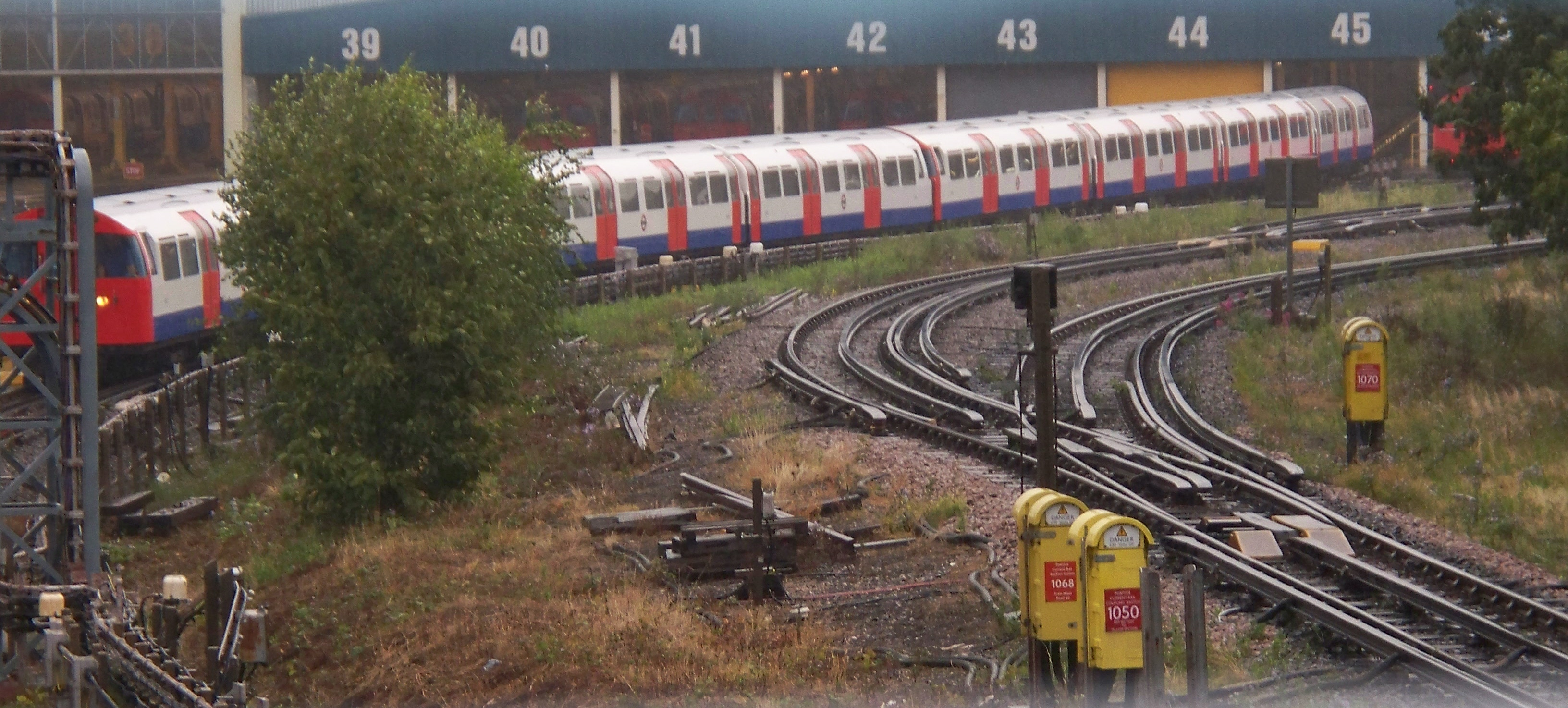 Northumberland Park Underground Depot, London